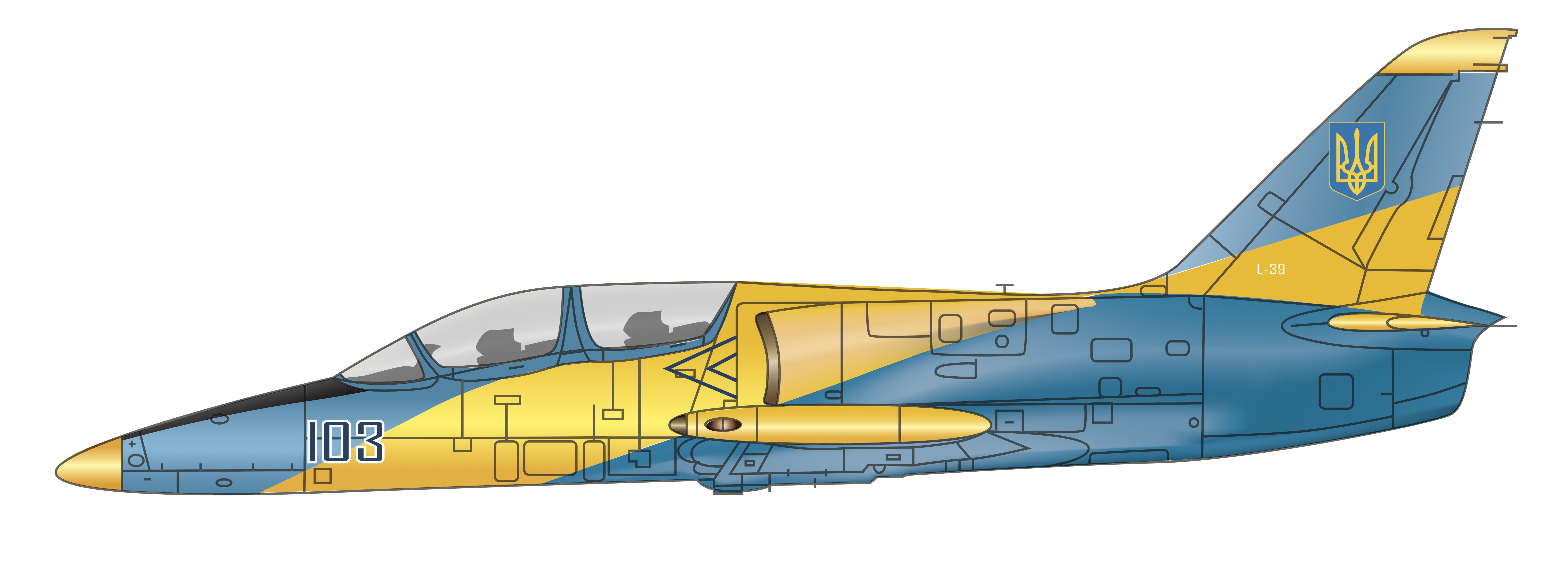 L-39M1 Ukrainian Air Force from 40th Tactical Brigade